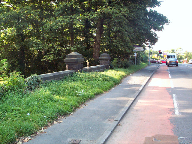 Old railway bridge, Menston. The High Royds mental hospital was so large that it had its own railway line for goods deliveries. This was a north-facing branch off the line between Guiseley and Menston. The branch passed under the A65 at this bridge, just south of the Bradford boundary (the 'Welcome to Menston' sign can be seen in the middle distance). The area to the left is currently used for police dog training. At the other side of the road, the former trackbed has been erased by an ambulance station.